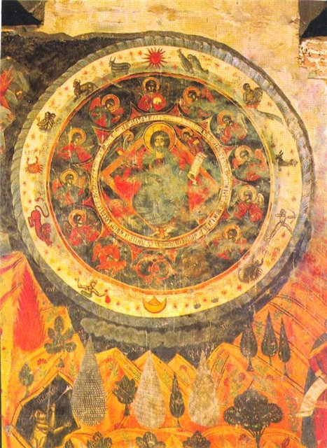 A fragment of fresco from Svetitskhoveli depicting the Zodiac. 17th century